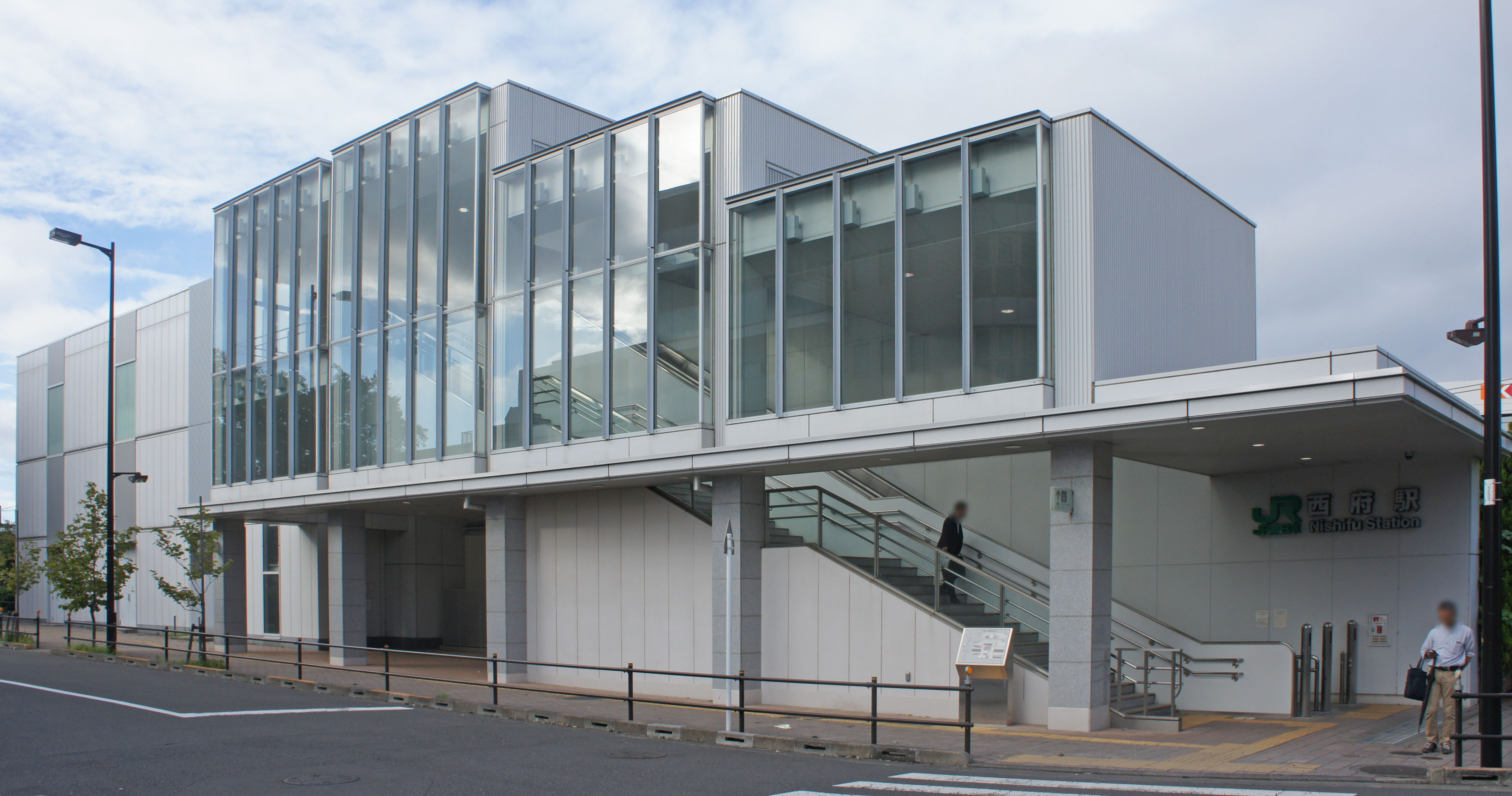 South Exit of JR Nambu-Line Nishifu Station